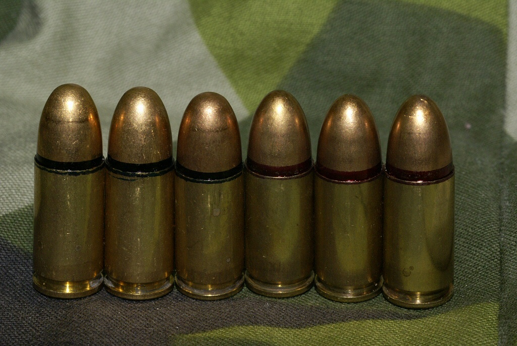 Swedish 9x19 mm M/39 and M/39B rounds